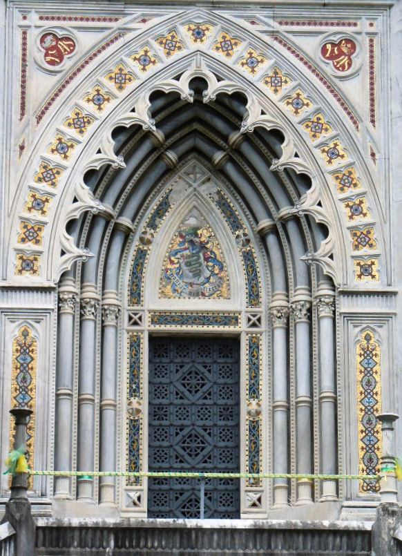 Facade detail of the Mausoleo Visconti di Modrone